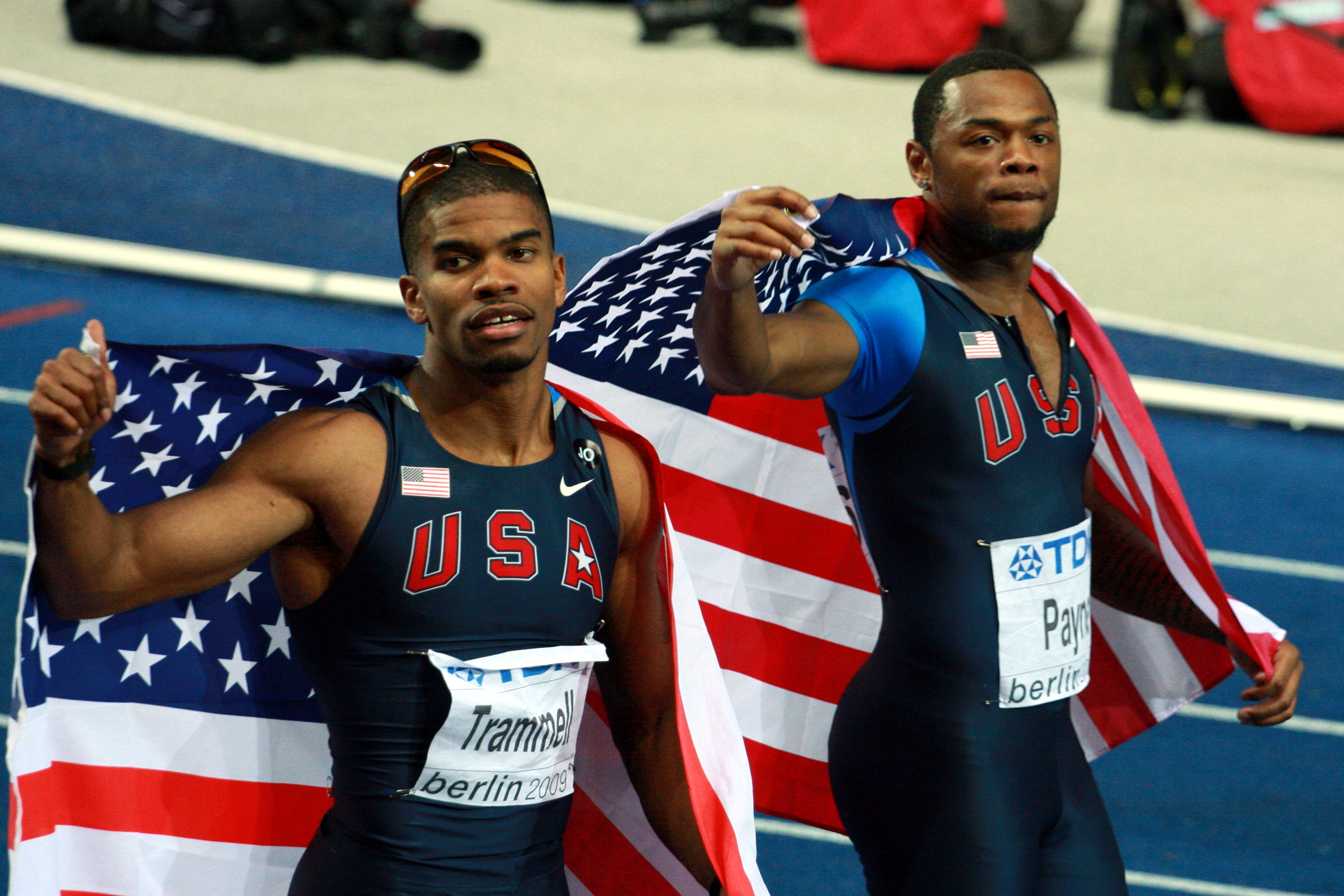 Terrence Trammell (Silver Medal) and David Payne (Bronze Medal)